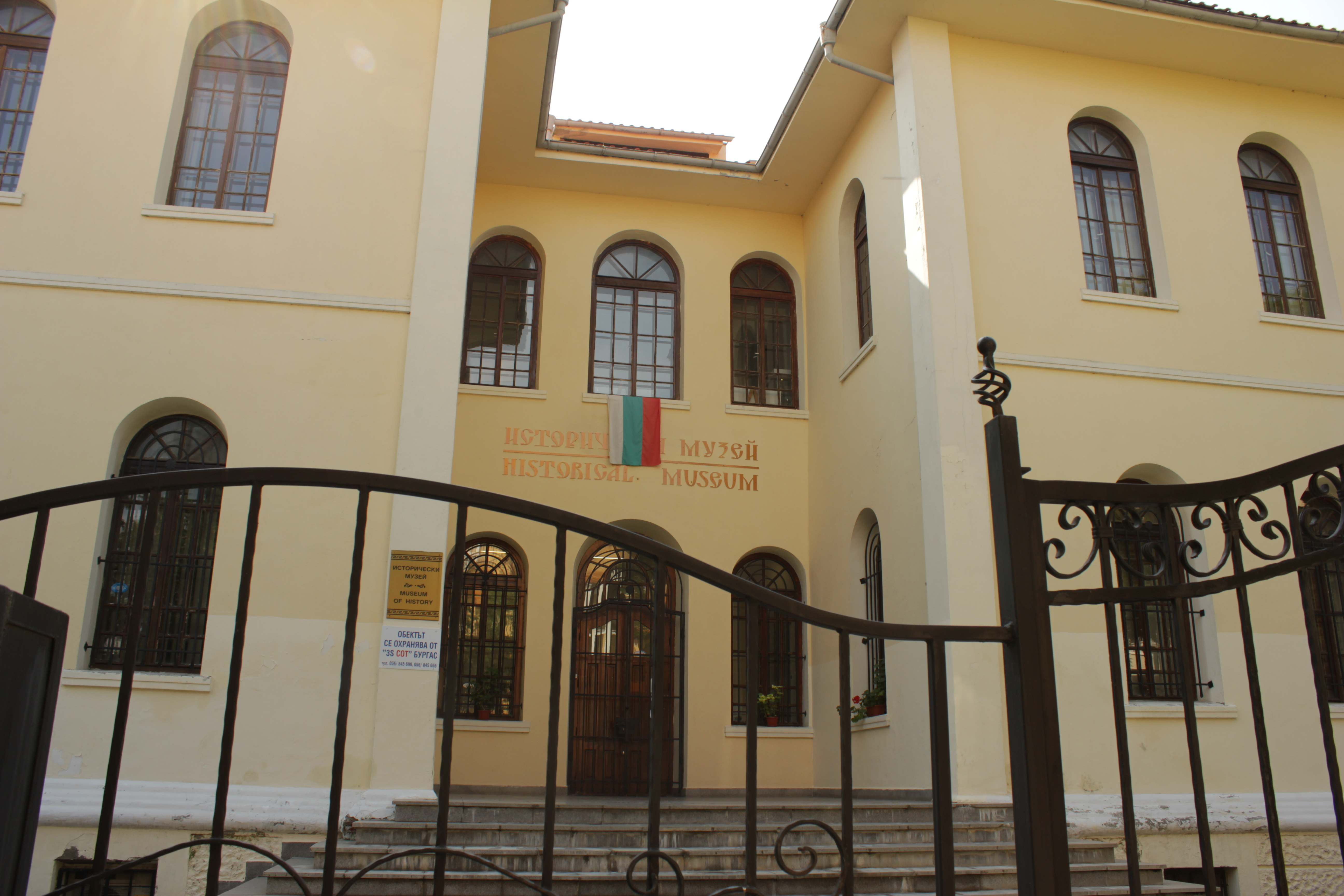 Hisatory Museum in Pomorie, Bulgaria